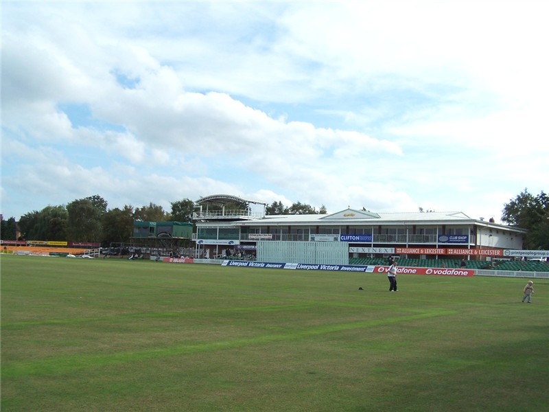 The car park end of the ground. taken by kev747